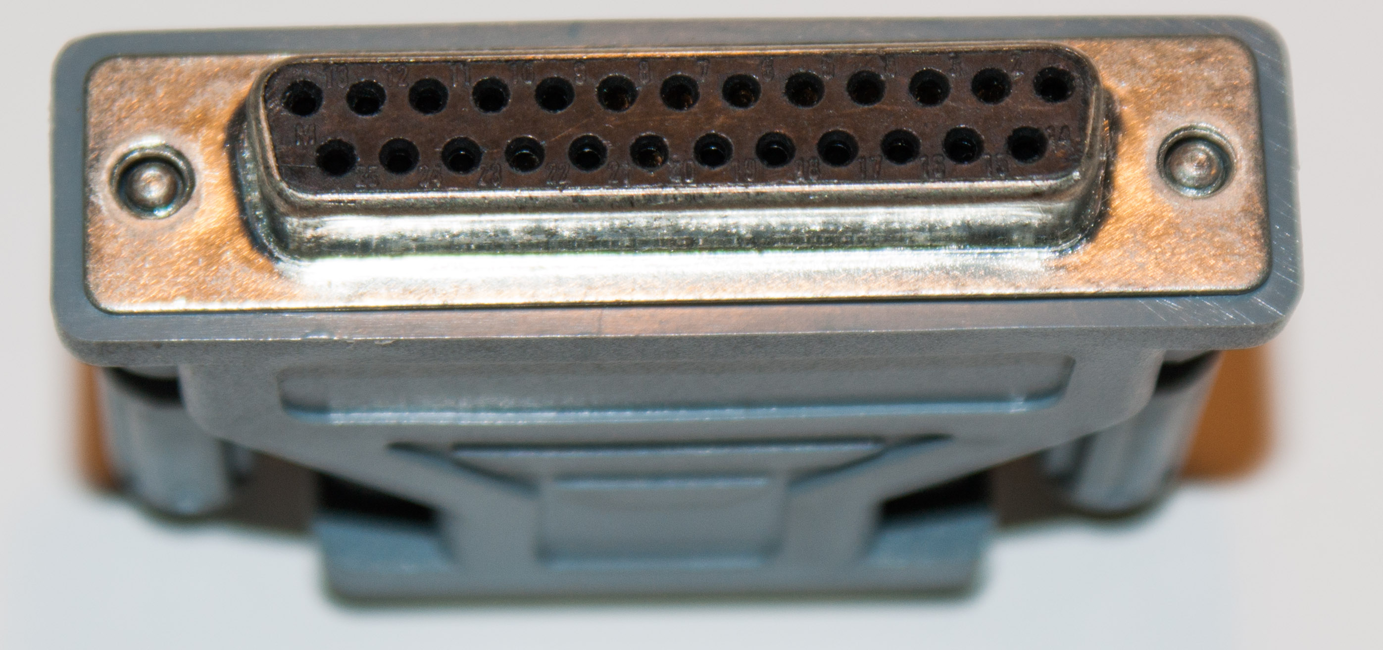 DB-25 connector